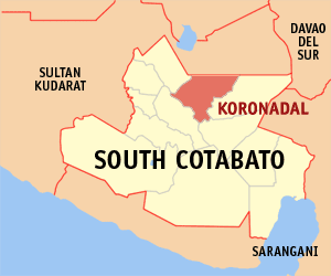 Map of the South Cotabato showing the location of Koronadal